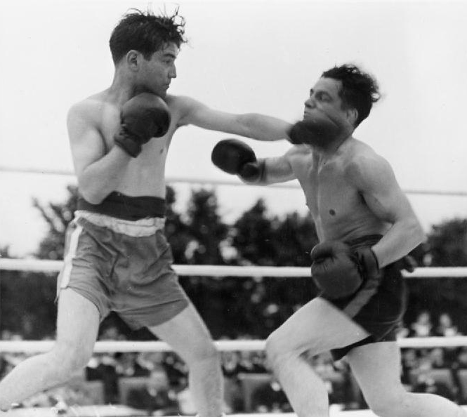 Boxing Tournament in Aid of King George's Fund For Sailors at the Royal Naval Air Station, Henstridge, Somerset, July 1945 Air Mechanic (A) Ronny Clayton (left) of Royal Naval Air Station Worthy Down, in his six round light weight contest with Petty Officer Ben Duffy of RNB, Chatham.